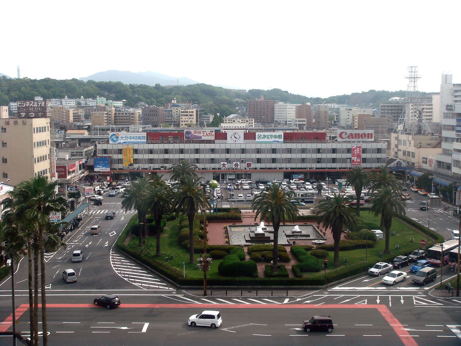 JR Oita Station, Oita City, Oita Pref., Japan / 大分駅（大分県大分市）